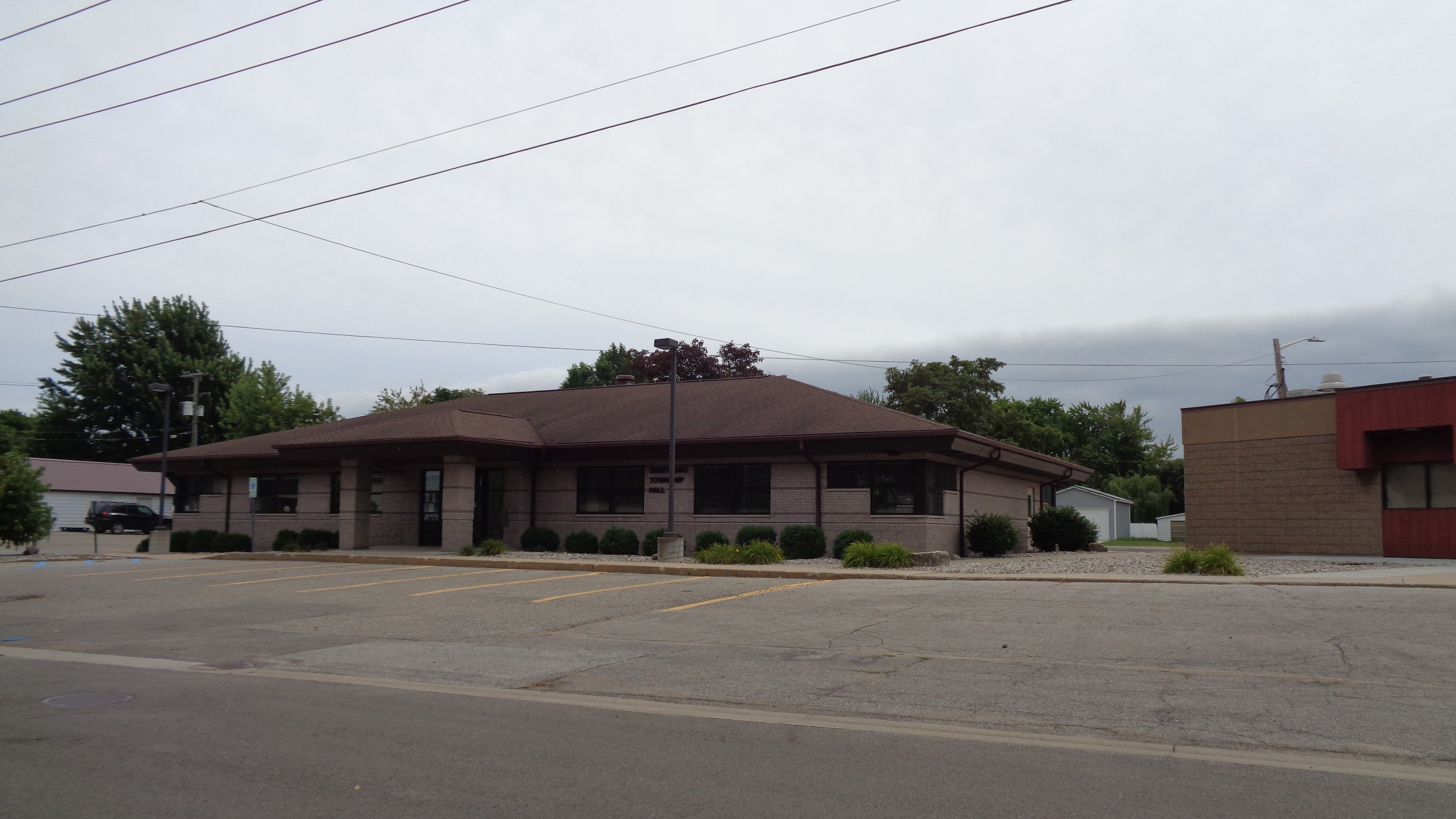 Depicted place: Sebewaing Township